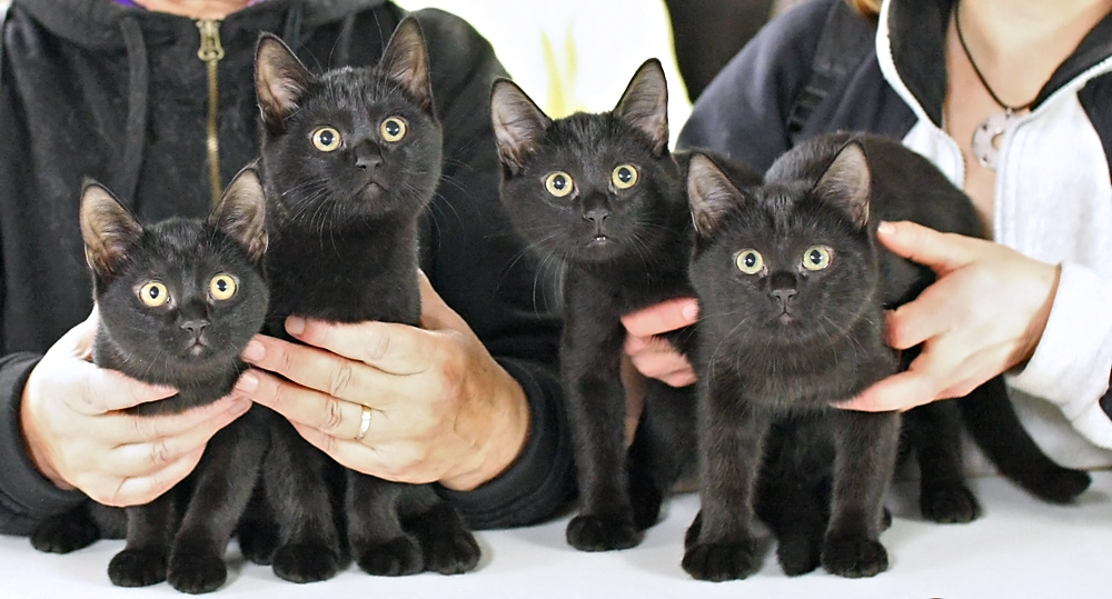 Four European shorthair kittens in Forssa cat show. From left to right : Pikku-Piun Kultahippu [EUR n] Pikku-Piun Kultamuru [EUR n] female kitten EX1 Pikku-Piun Kultajyvä [EUR n] Pikku-Piun Kultapieni [EUR n] female kitten EX2